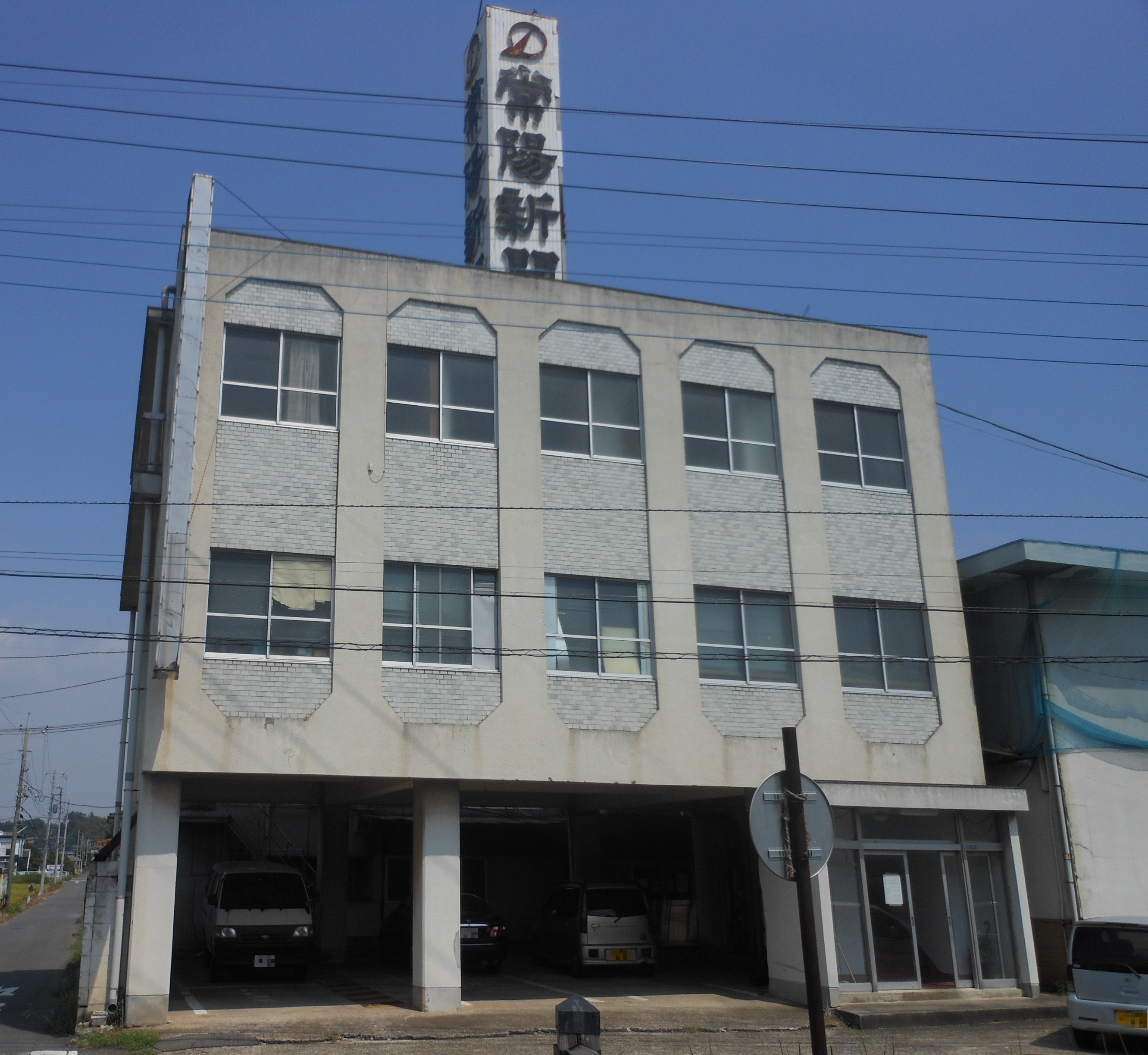 This was the building of Joyo Newspaper Head office, which is located in 7-6 Manabe 2chome, Tsuchiura, Ibaraki, Japan. In August 31, 2013, this building was under control of the lawer.